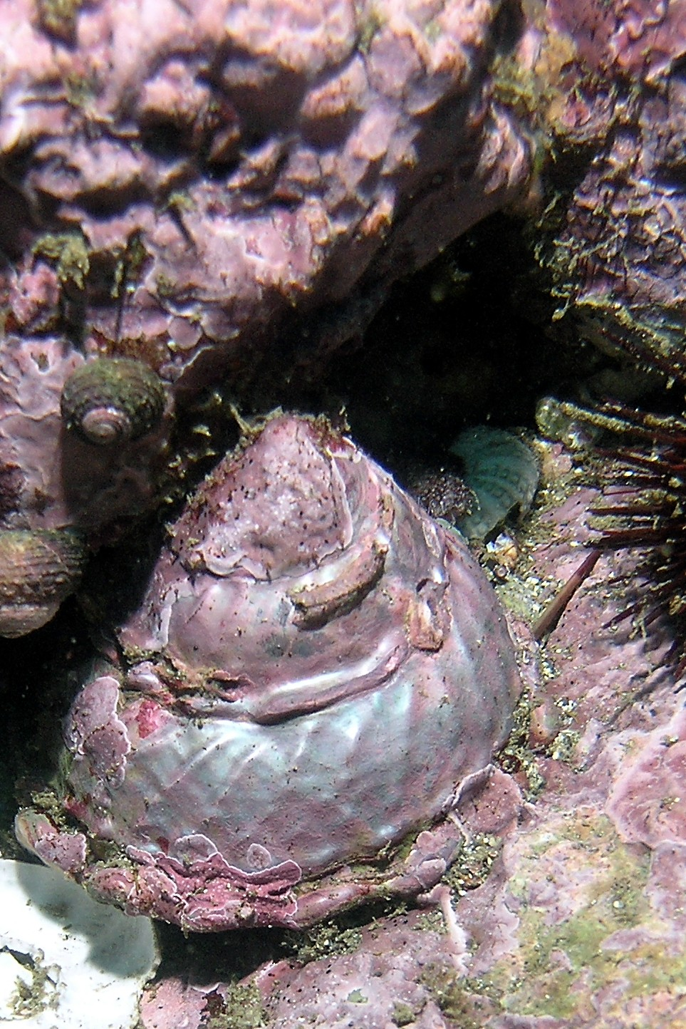 Megastraea undosa (synonyms: Lithopoma undosum, Astraea undosa) in situ.